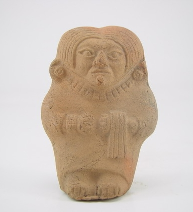 Moche figurine depicting a woman with labret. Larco Museum Collection. Lima-Peru